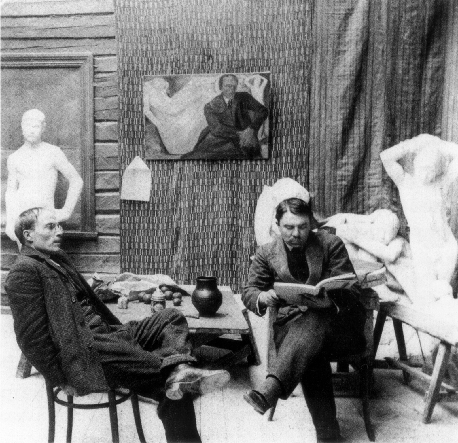 A. Matveev and P. Kuznetzov. Kikerino. 1912